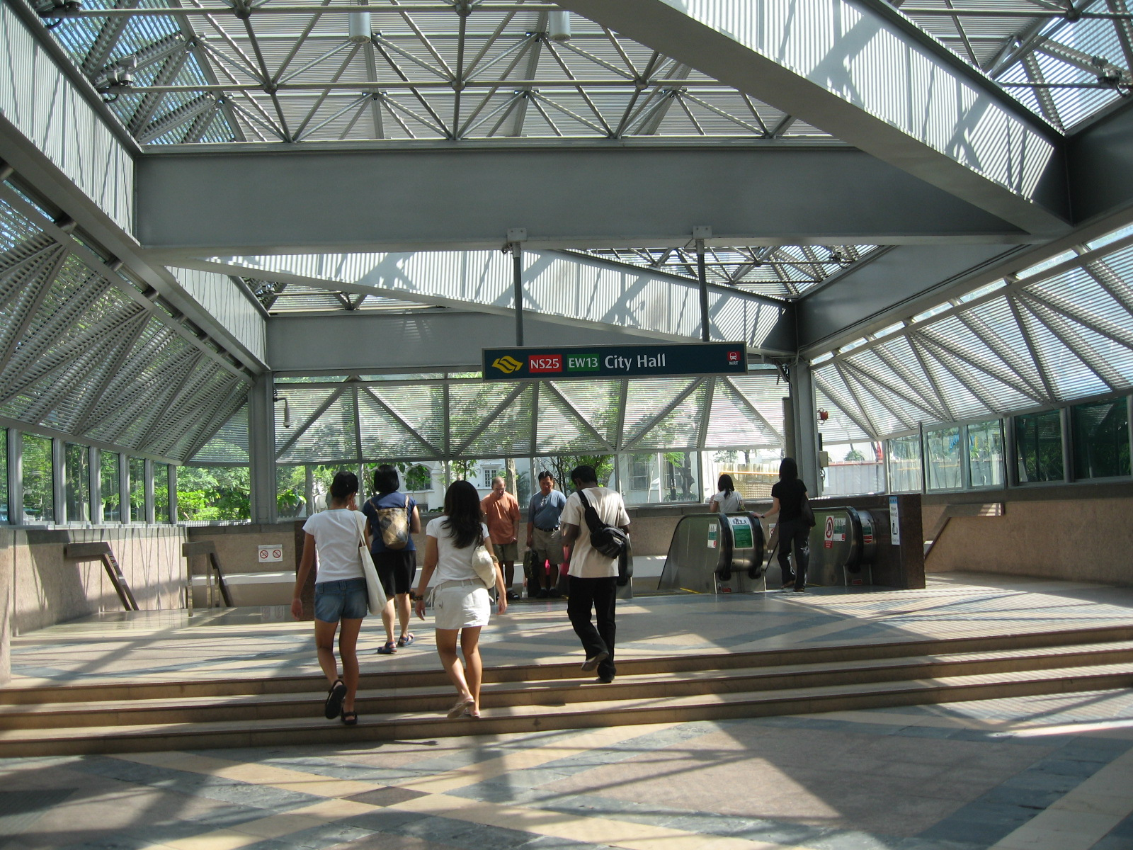 City Hall MRT Station.